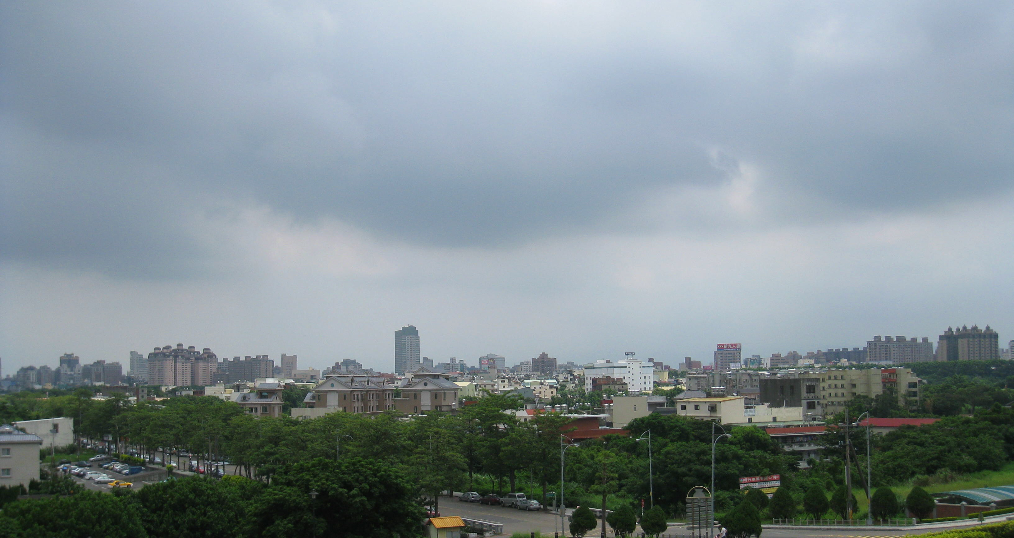 Jhongli City in Taoyuan County of Taiwan.